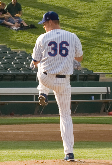 Kerry Wood, rehab start for the Peoria Chiefs, July 2007.